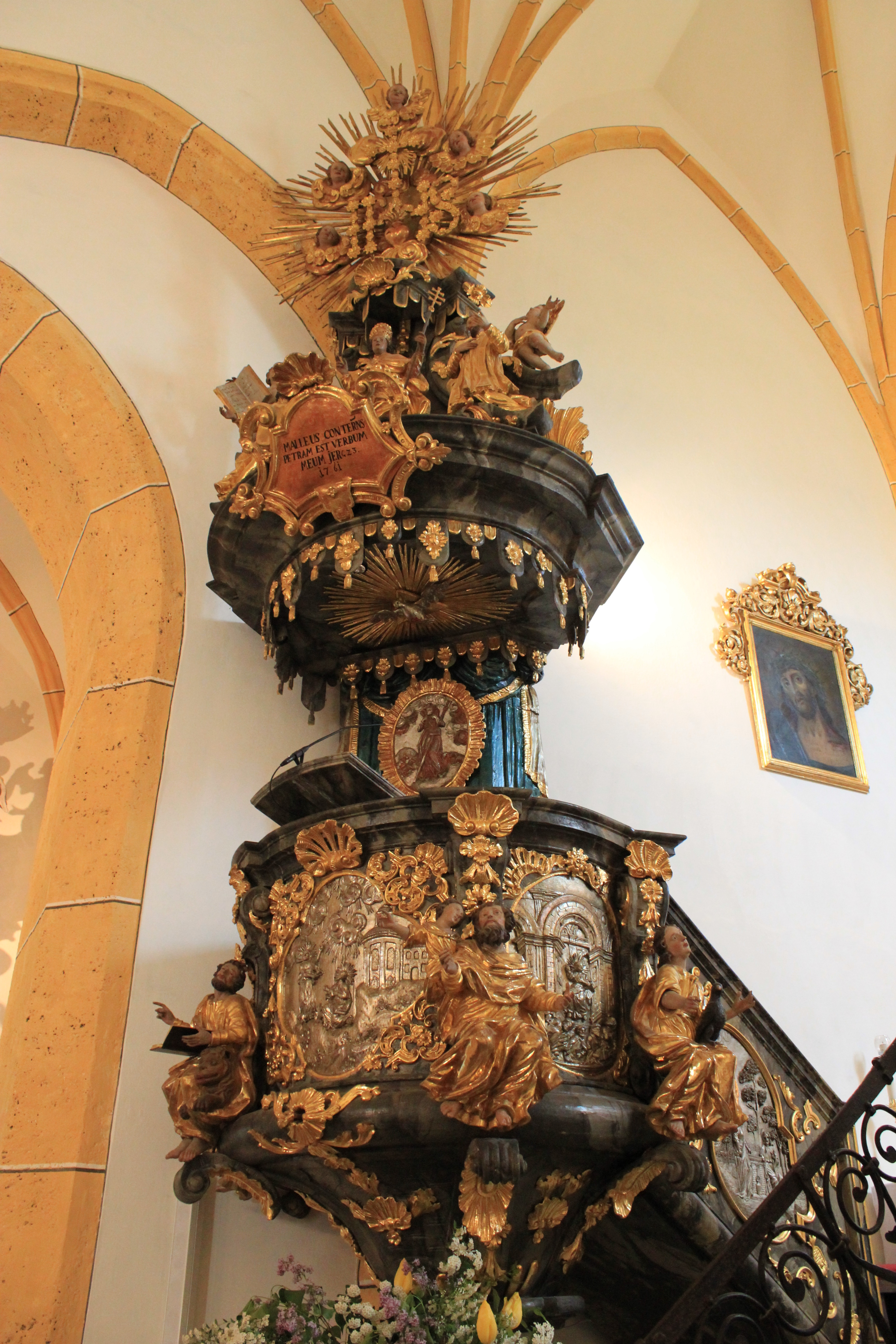 Parish church in Maria Wörth - pulpit